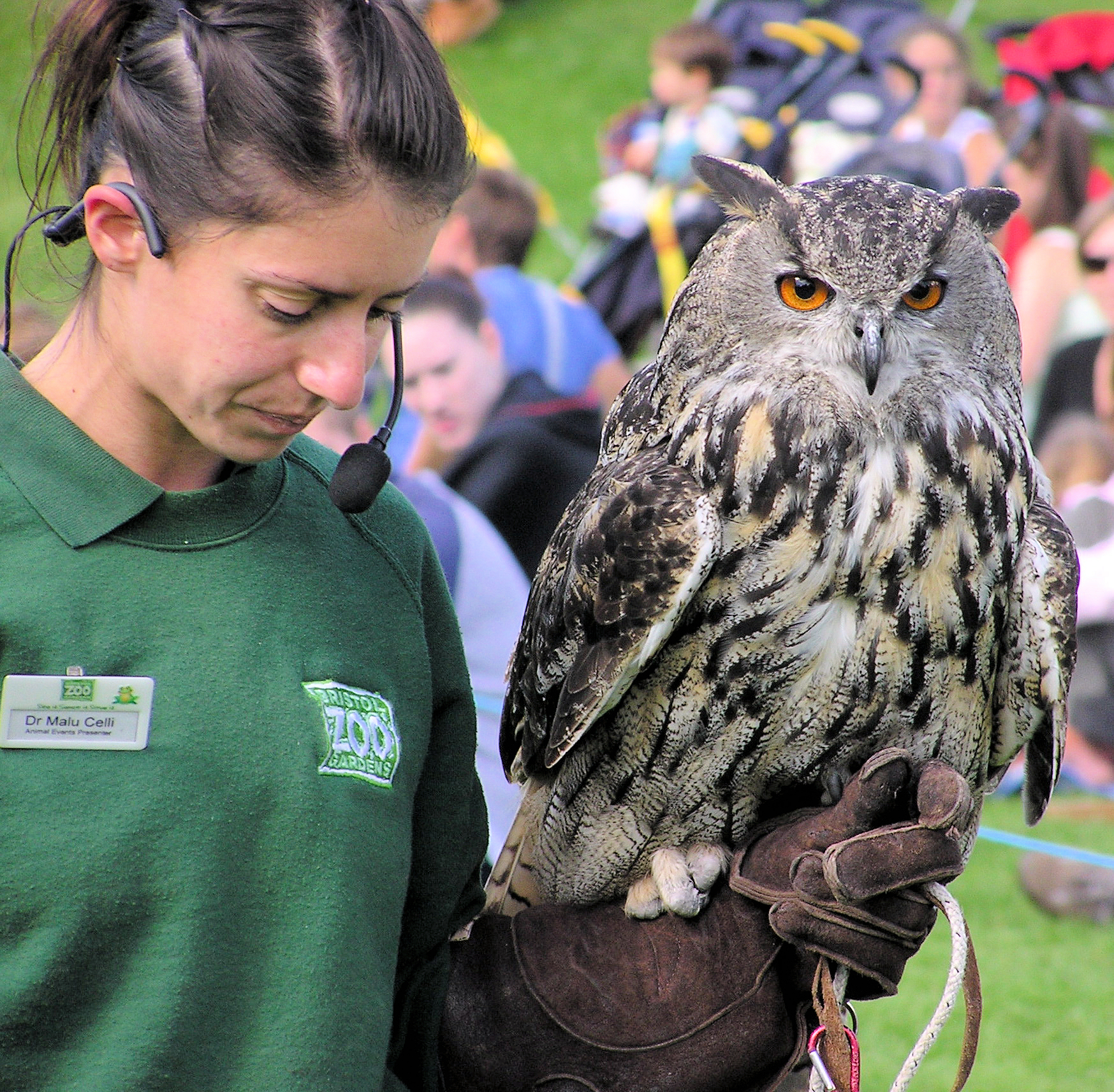 Eurasian Eagle Owl Bubo bubo, and handler, at Bristol Zoo, Bristol, England.